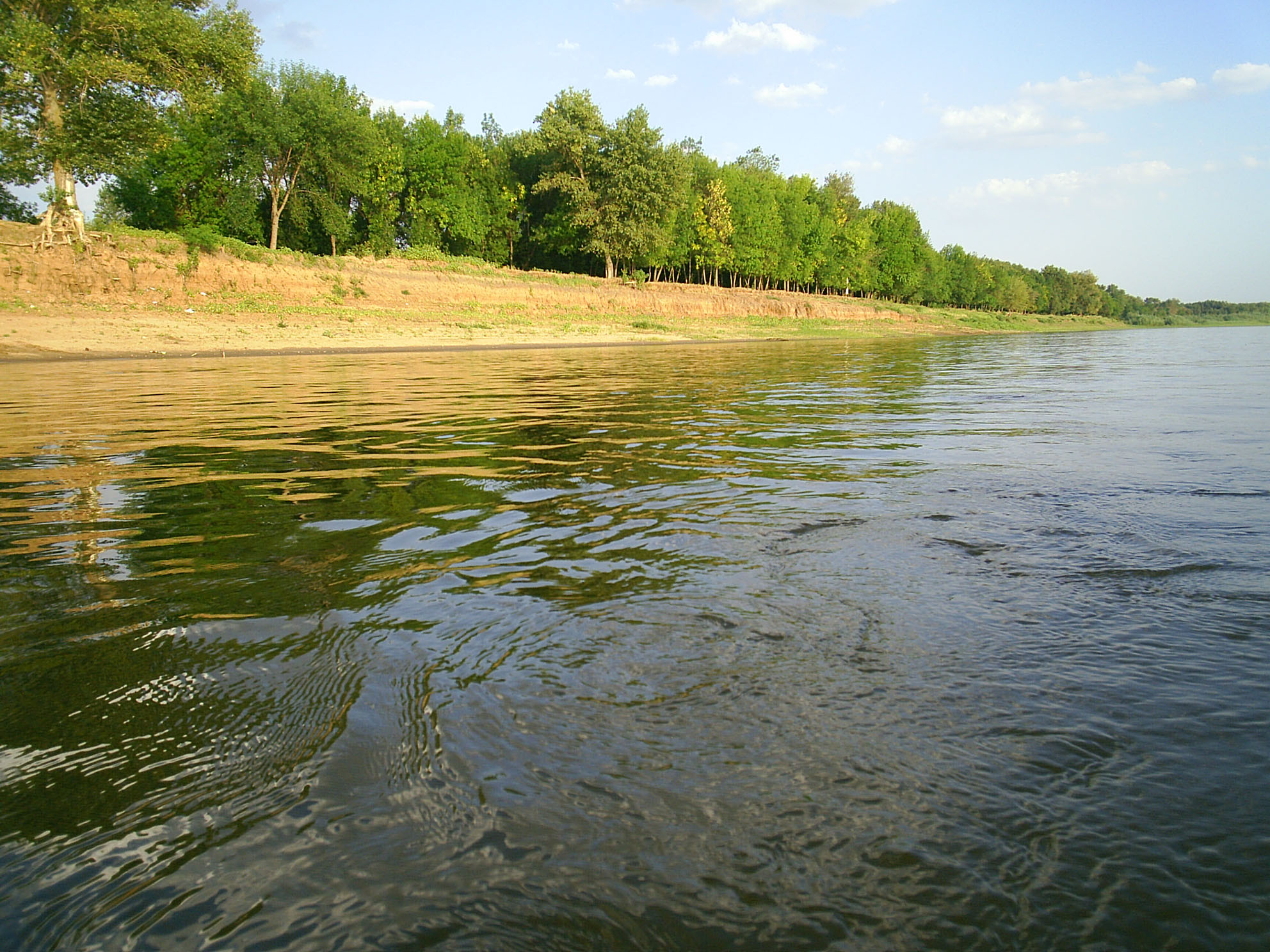 Akhtubinsk, Volga river, summer